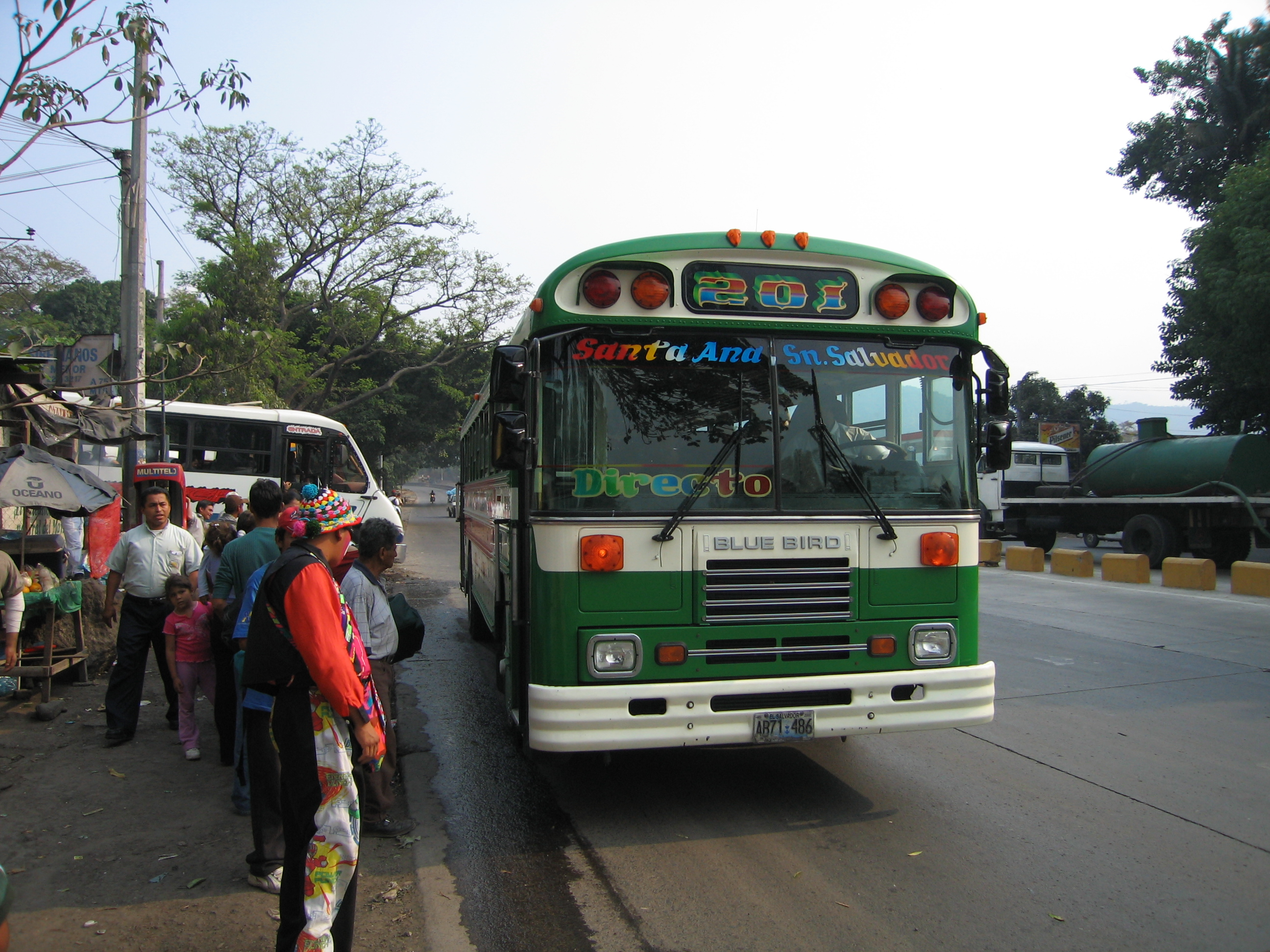 photo taken by Scott Schaffter, 2005